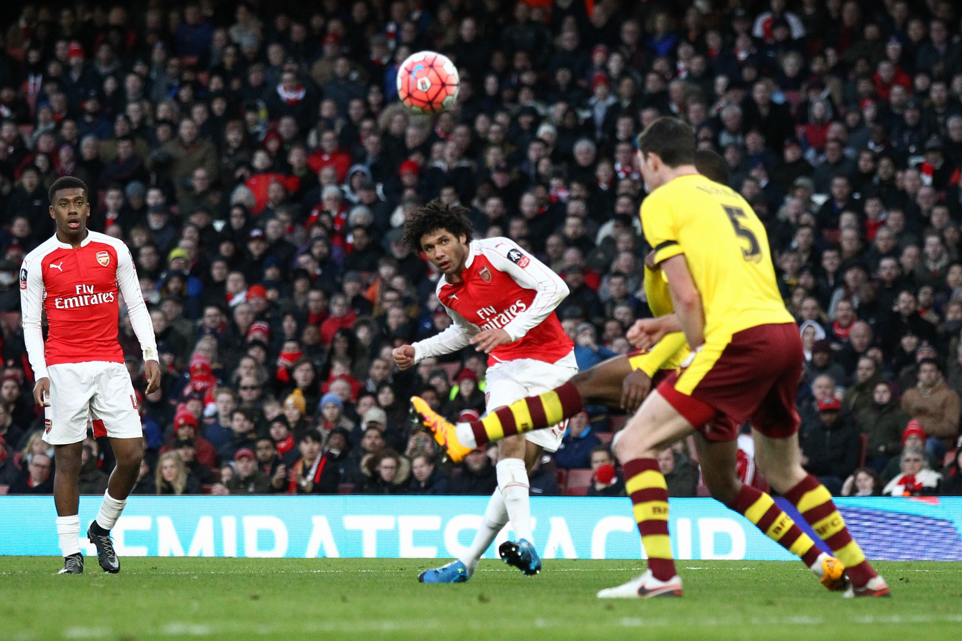 Mohamed Elneny of Arsenal shoots at goal during the game against Burnley.